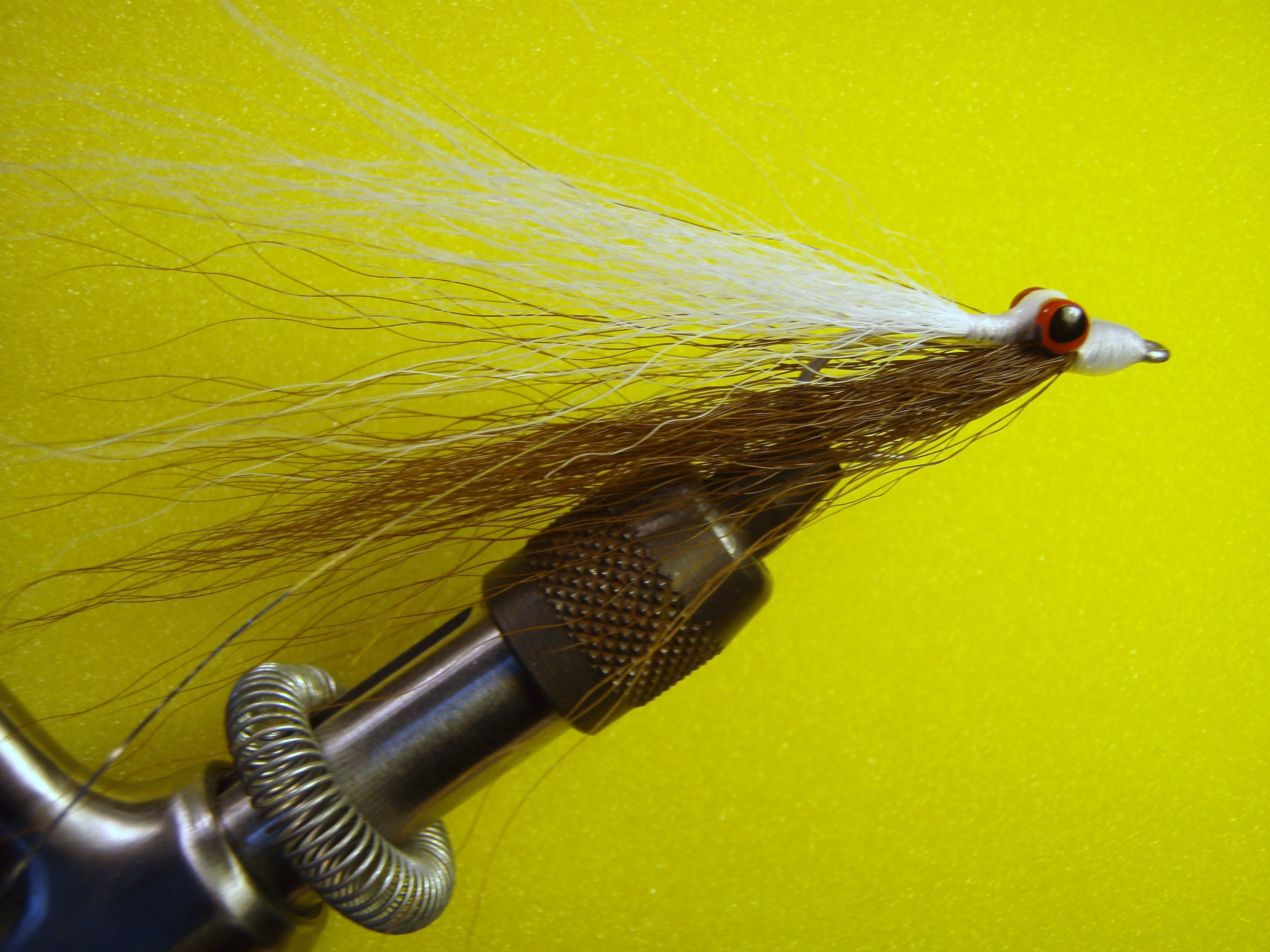 Brown and White Clouser Deep Minnow